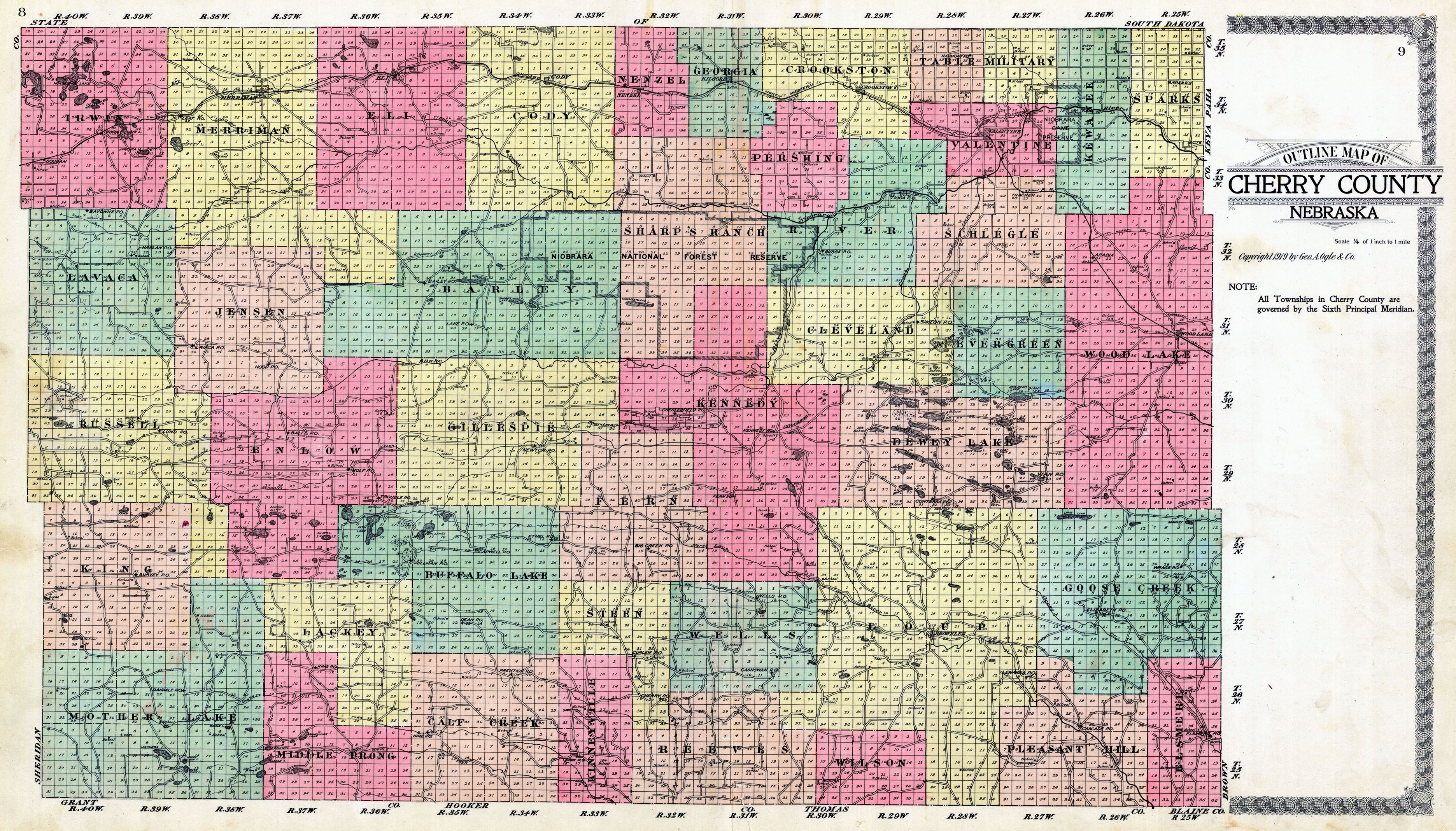 map of Cherry County, Nebraska, with precinct subdivision. Original size 74,30 cm x 42,43 cm. Scale 1:253440 or 1/4 of 1 inch to 1 mile)